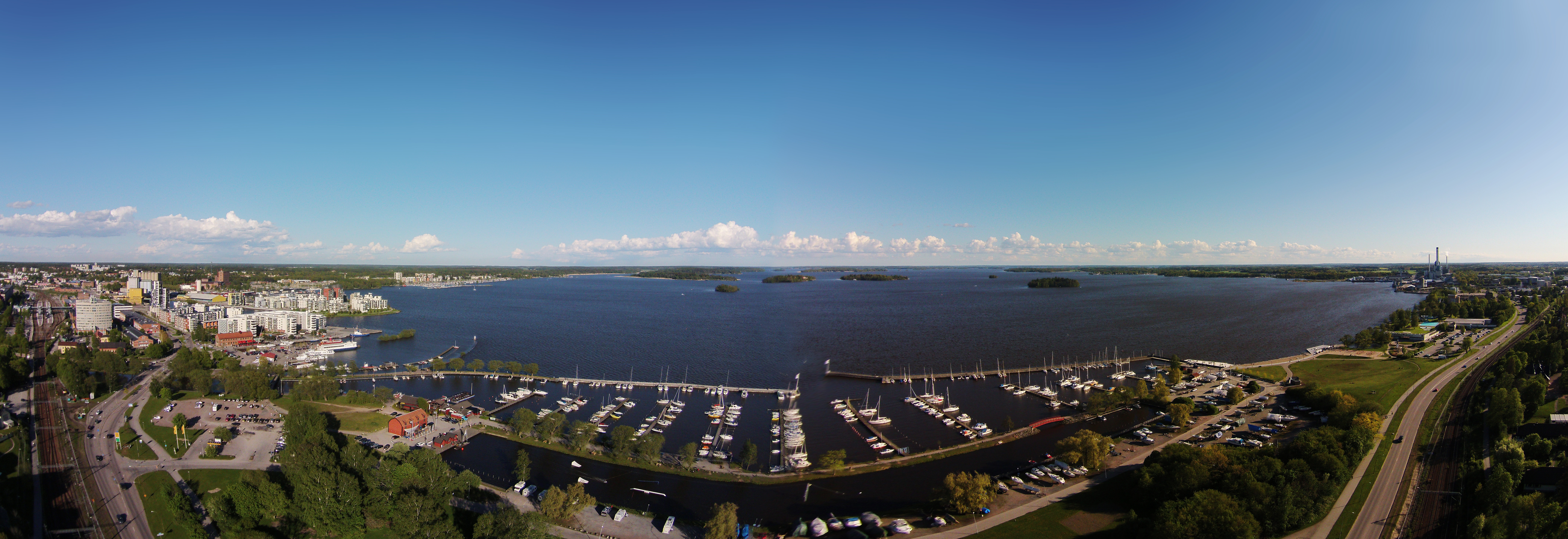 View south from the city Västerås, Sweden with the lake Mälaren. View at the horizon from left to the right: Residential area Öster Mälarstrand, islands Östra holmen, Amundsgrund (small, in foreground), Elba, Västra Holmen, Hovaren (small), Kattskär, and the power station Västerås kraftvärmeverk.